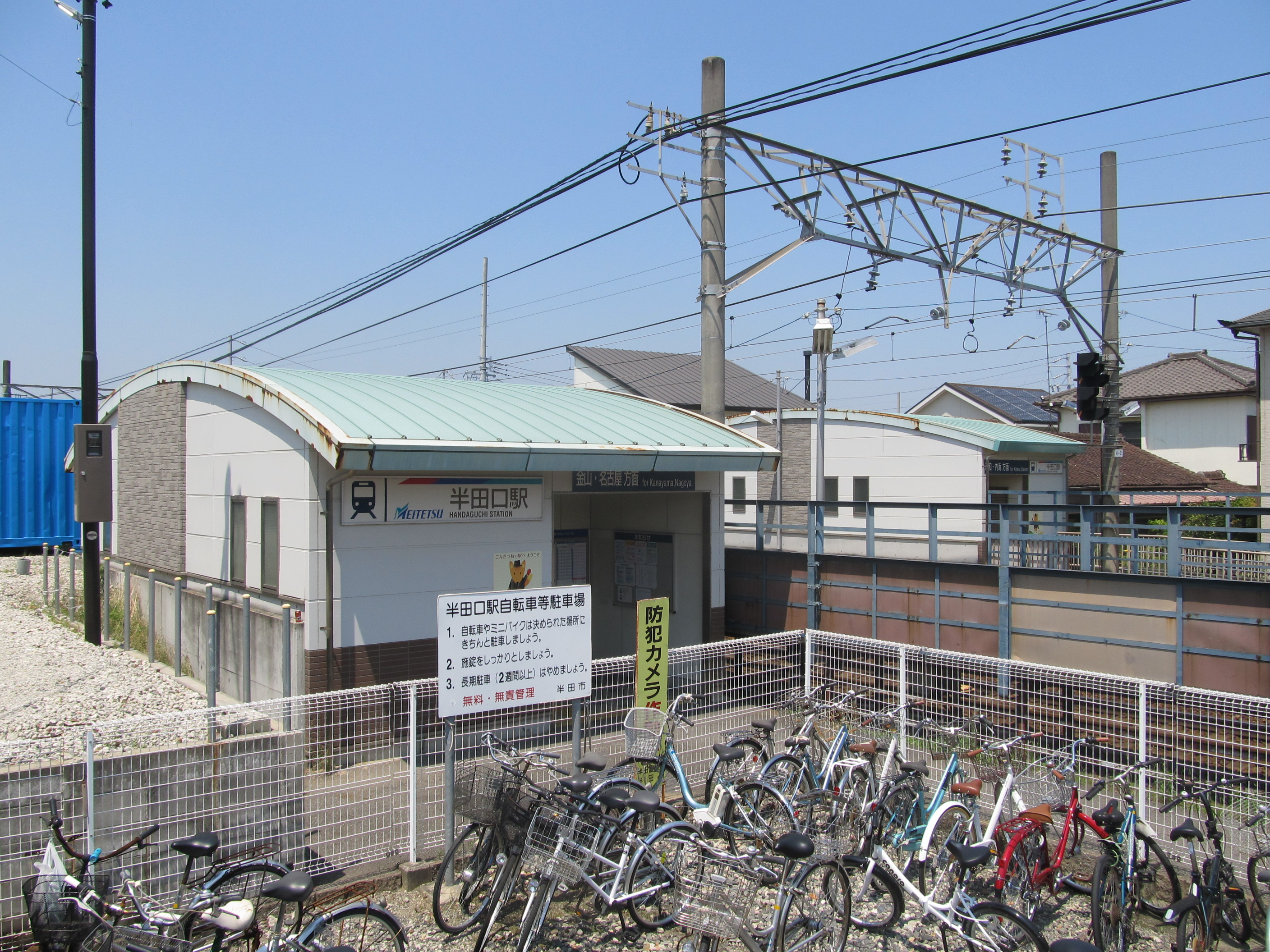 Nagoya Railroad Kowa Line Handaguchi Station Building (for Ōtagawa)